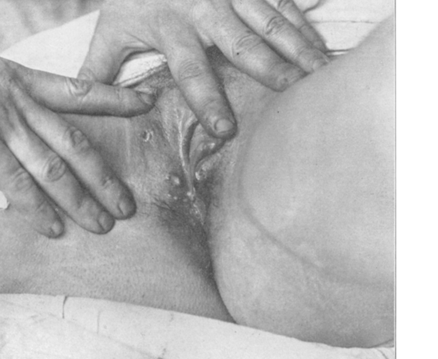 Image of the first case described of Lipschutz ulcer. The disease was first described in October 1912 by Galician-born Austrian dermatologist and microbiologist Benjamin Lipschütz, who published a series of four cases in girls aged 14 to 17. The image was one of the figures of the original article.